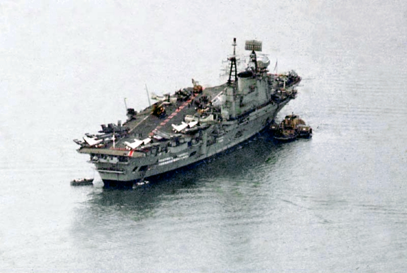 The Royal Navy aircraft carrier HMS Eagle (R05) at Gibraltar, in January 1970.